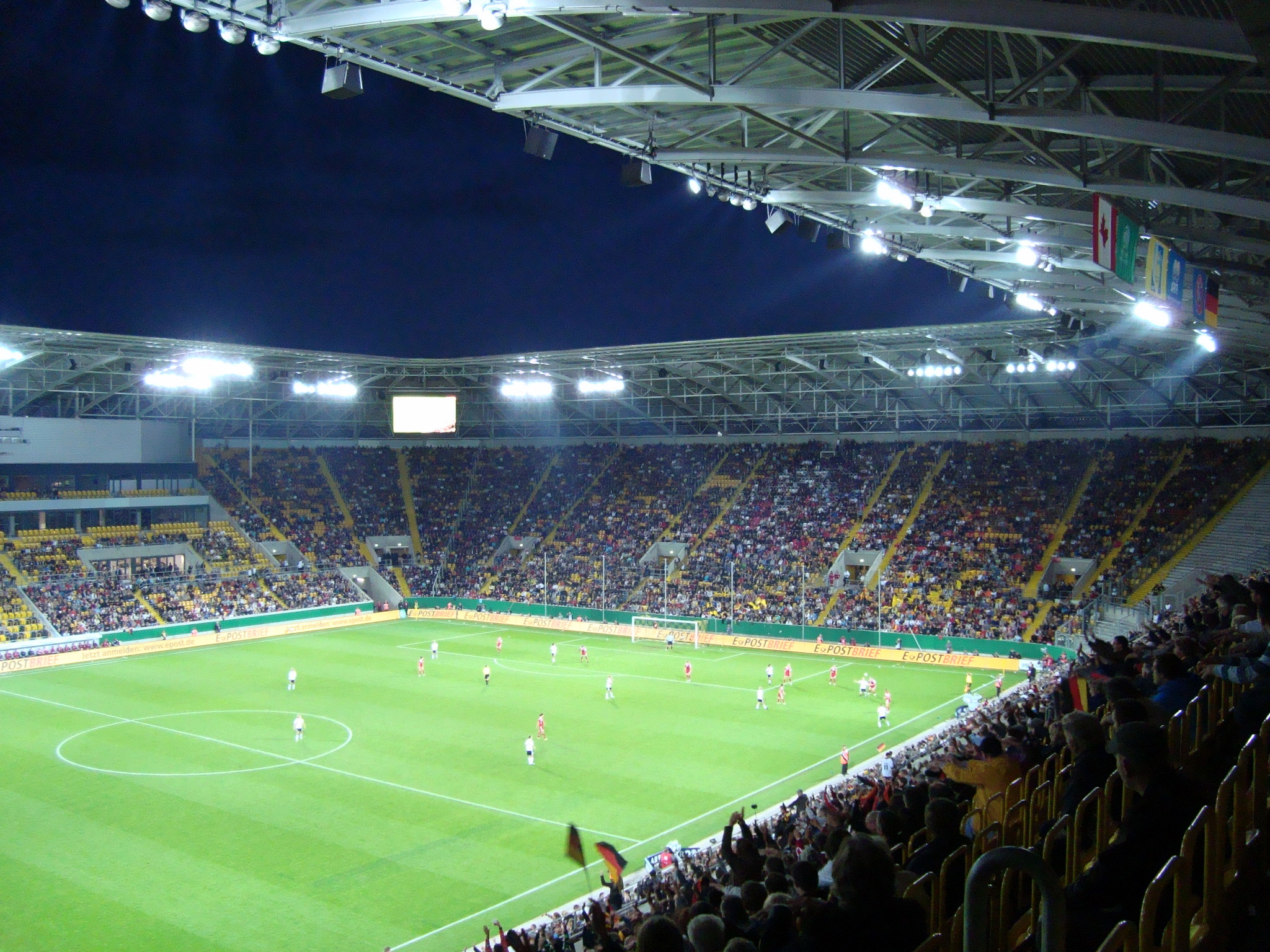 Photo of Rudolf-Harbig-Stadium in Dresden. The German women beat Canada in an international exhibition match 5-0 (1-0). In front of 20,431 fans, German player of the year Inka Grings scored the 1-0 at seconds minute by a penalty. Germany dominated throughout first half but failed to expand the lead. Goals scored in second half Fatmire Bajramaj (54.), topscorer at the Under 20 World Cup, Alexanda Popp(76.), Melanie Behringer (79.) and Celia Okoyino da Mbabi (83.). Germany coach Silvia Neid brought to a conclusion: "In first half we weren't consequent enough, but then we got the Canadians tired."